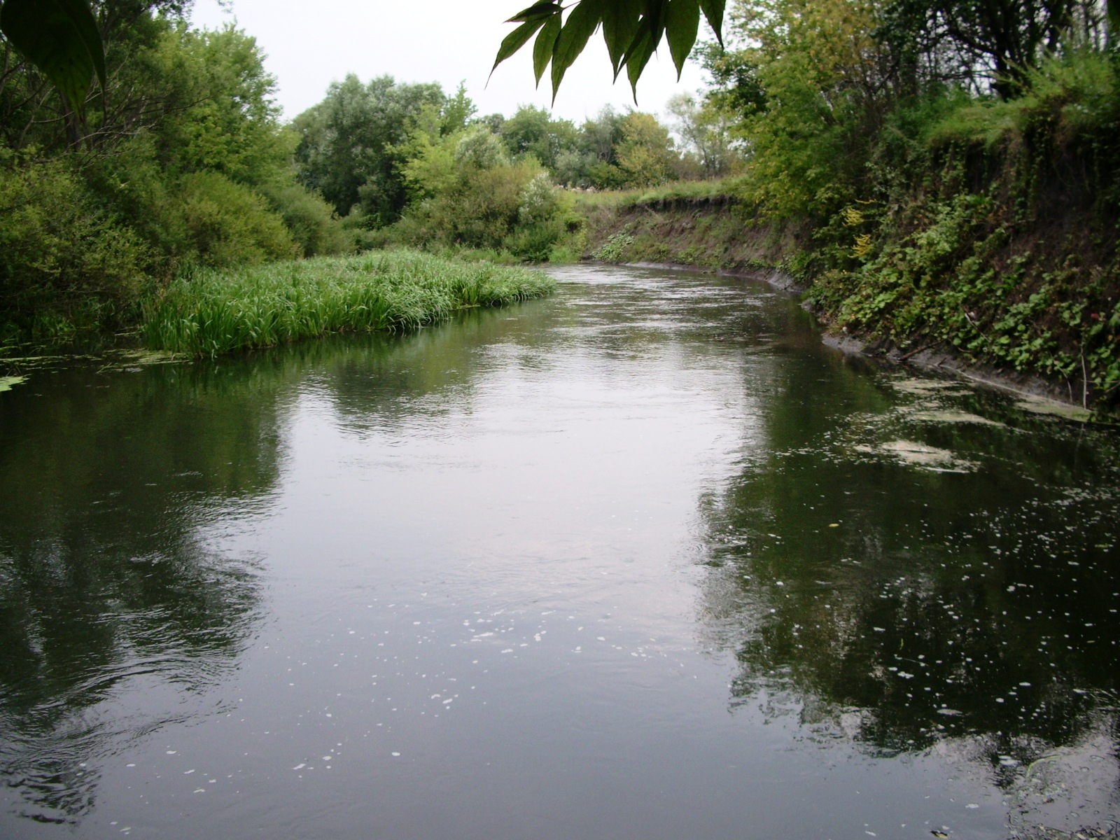 River Vorgol in Lipetsk Oblast